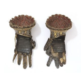 Gauntlets, about 1614 V&A Museum no. 1386&A-1888 These gauntlets, or gloves, are made of steel damascened with a design of military trophies, palm branches and wreaths, referring to their military use. The technique of damascening uses gold or silver to decorate a base metal such as iron or brass. After a design is traced over on the object, a hammer and punch is used to push gold or silver wire into prepared channels on the base metal surface. These gauntlets are thought to be part of a set of three suits of armour made for the sons of Philip III of Spain (1609-1641). Very grand, costly armour was part of the equipment for a prince or noble of this period. This suit used gold and silver as well as a beautiful crimson silk lining with gold and silver embroidery.